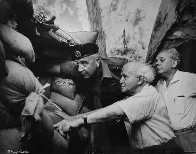 Israeli Prime Minister and Minister of Defense David Ben-Gurion with IDF Commander of the Jerusalem District Aluf-Mishne (colonel) Yossef Nevo and Mayor of Jerusalem Mordechai Ish-Shalom at an army post on Jerusalem Border (City Line; the Jordan-Israel de facto border), Musrara, West Jerusalem, beginning of August 1962. This appears to be a complementary photo (taken from exhibition page).